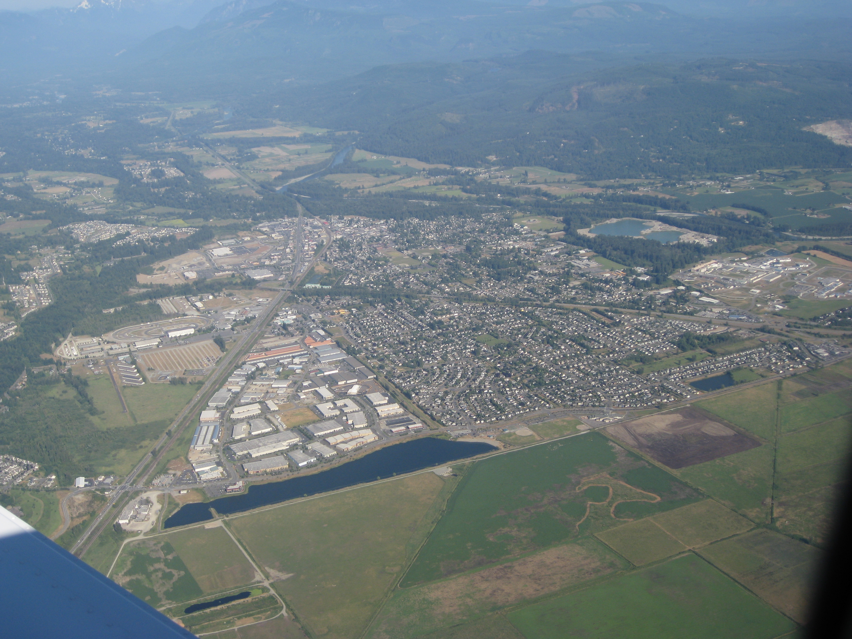 An aerial view of Monroe, Washington, looking east-southeast.